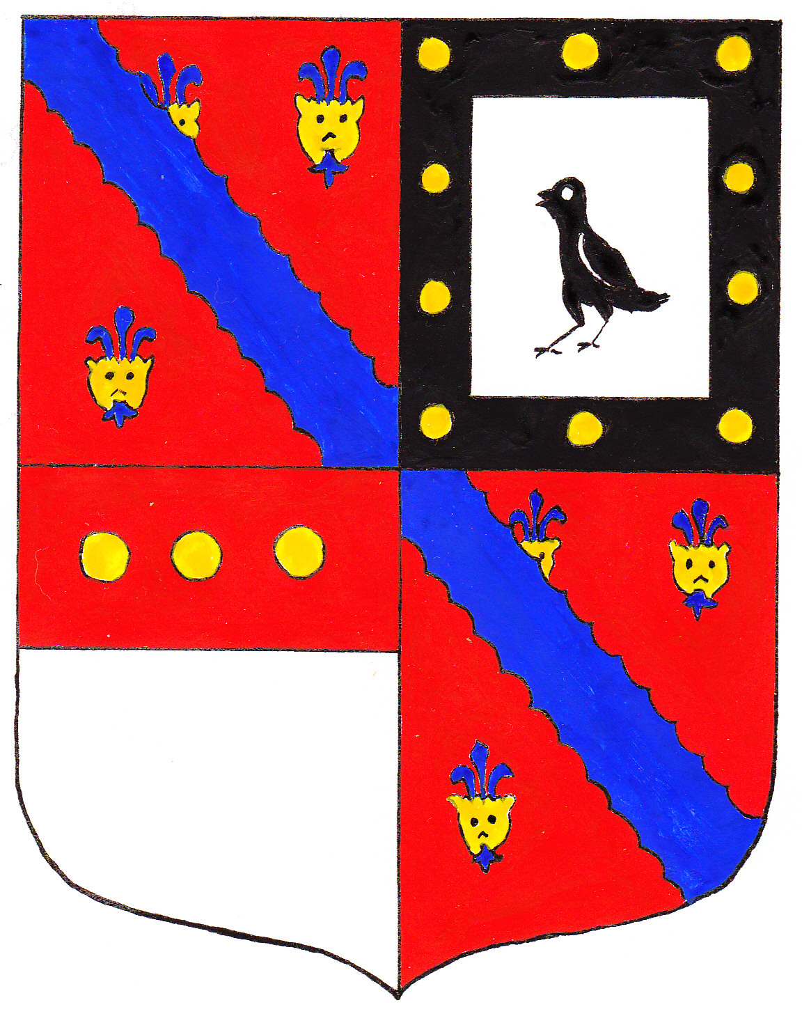 Armorials of Sir William Denys(d.1533) of Dyrham, Gloucestershire: Quarterly, 1st & 4th: gules, 3 leopard's faces or jessant-de-lys azure over all a bend engrailled of the last (Denys), 2nd: argent, a raven proper a bordure sable bezantee (Corbet of Siston), 3rd: argent, on a chief gules 3 bezants (Russell). Source: Barnard papers, Bristol Archives, P/Puc/HM/1: part of correspondence between Lionel Barnard, vicar of Pucklechurch and Samuel Tucker of London, concerning the history of the Dennis family of Pucklechurch. Drawn as copied by Samuel Tucker from British Library Cotton MS Claudius CIII, folio 97b: "Sir Willm Denys, knighted by Hen. VIII". Redrawn & coloured by (Lobsterthermidor (talk) 16:02, 10 September 2011 (UTC)).